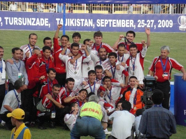 Regar TadAZ F.C. celebrates after winning the 2009 AFC President's Cup at their home field Metallurg Stadium in Tursunzoda, Tajikistan.